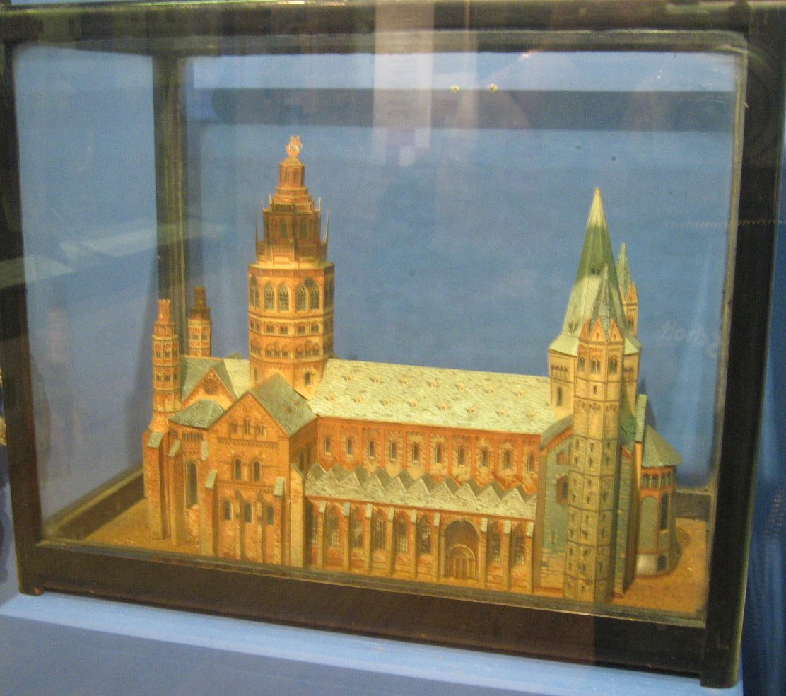 Replica of the cathedral of Mainz, Germany, created by Joseph Merrick and exhibited in the Royal London Hospital Museum. Template:Papírový model katedrály v německém Mohuči, vyrobený Josephem Merrickem. Vystaven je v muzeu Londýnské královské nemocnice.